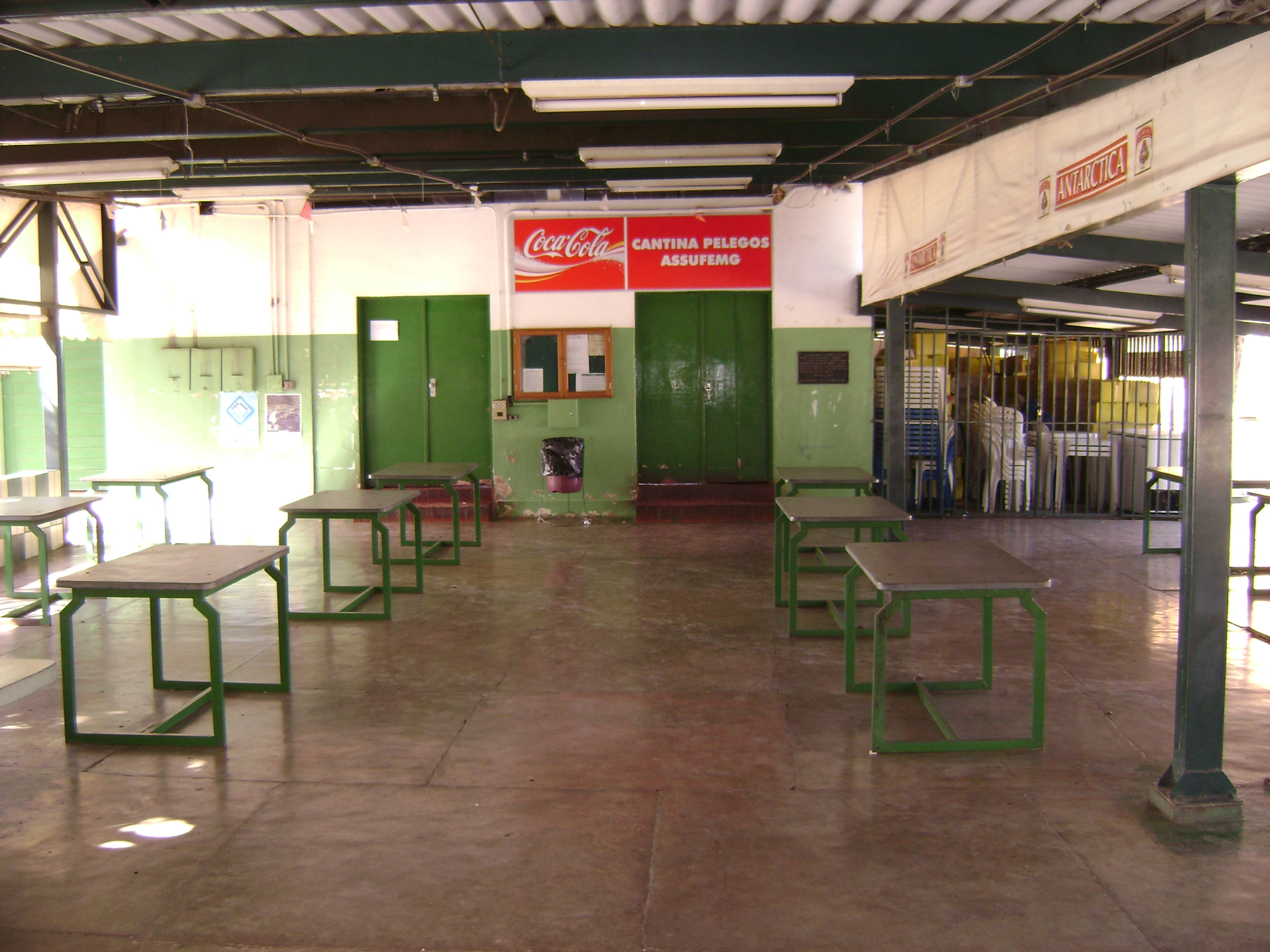 Barzinho da Assufemg, no campus Pampulha da UFMG.